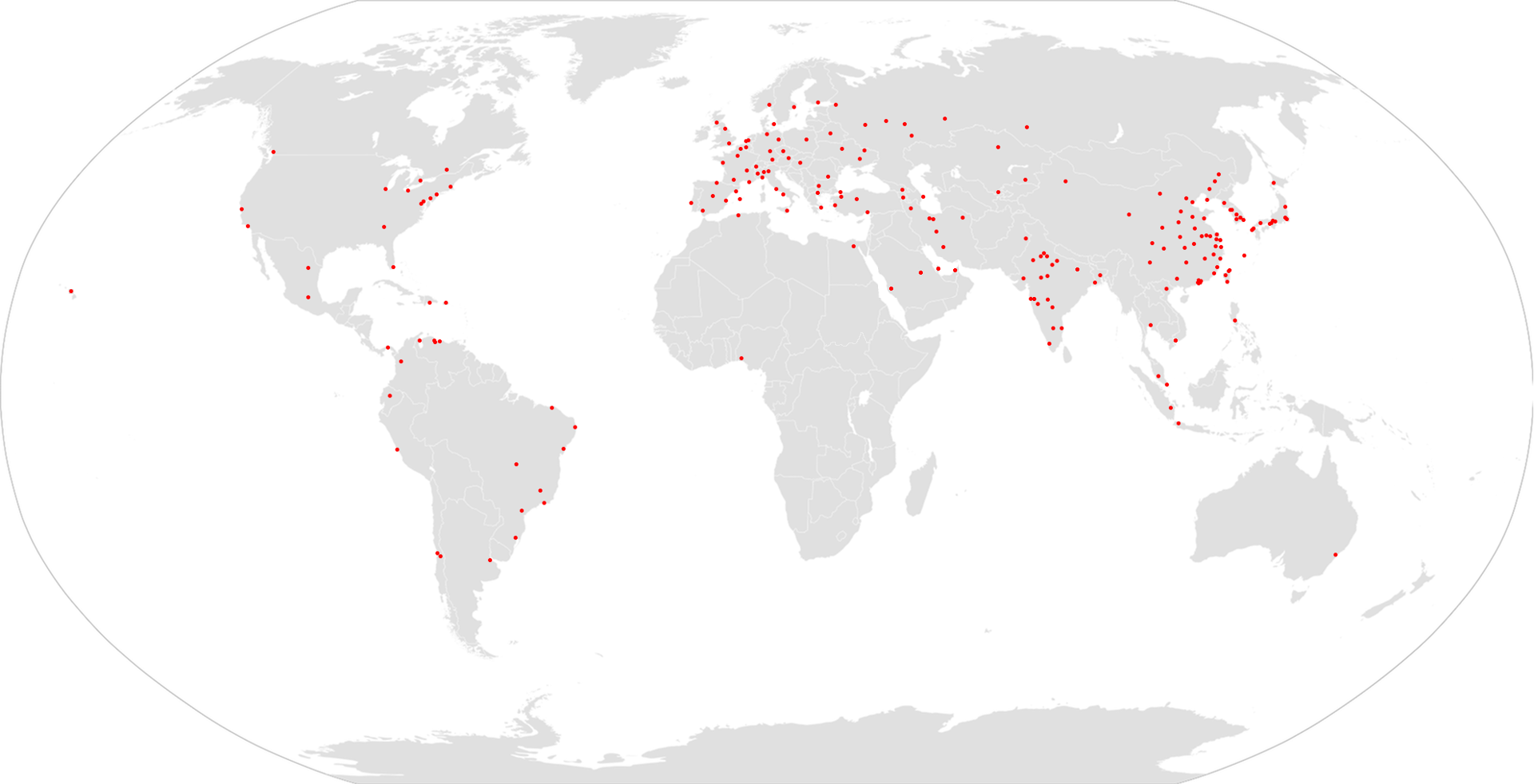 A map showing all the world's metro or subway systems.